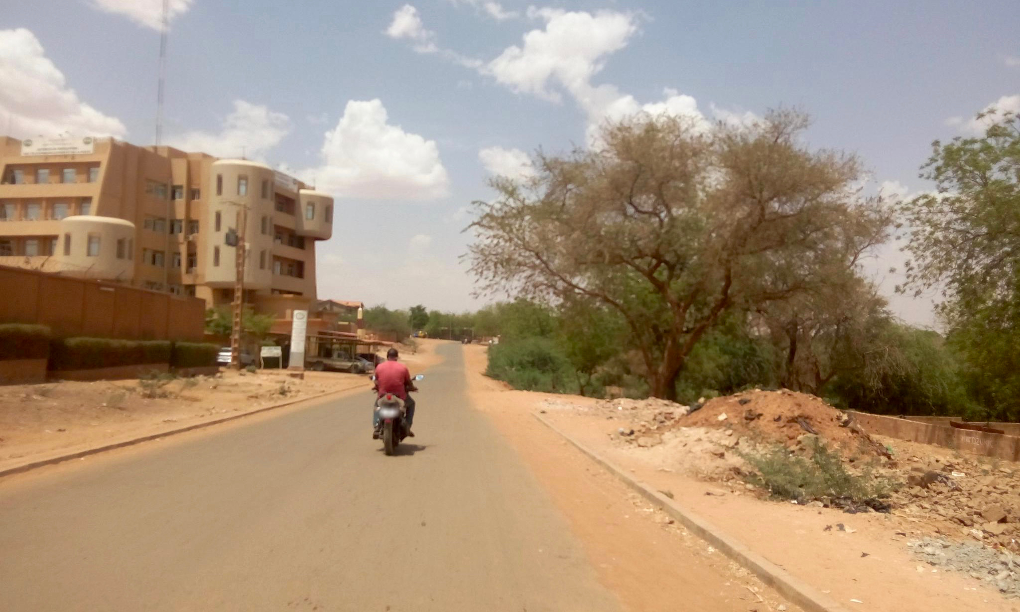 Street on the right bank of Gounti Yéna in Boukoki III, Niamey.